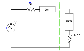 Schematics of a source and a charge for impedance adaptation. 2006